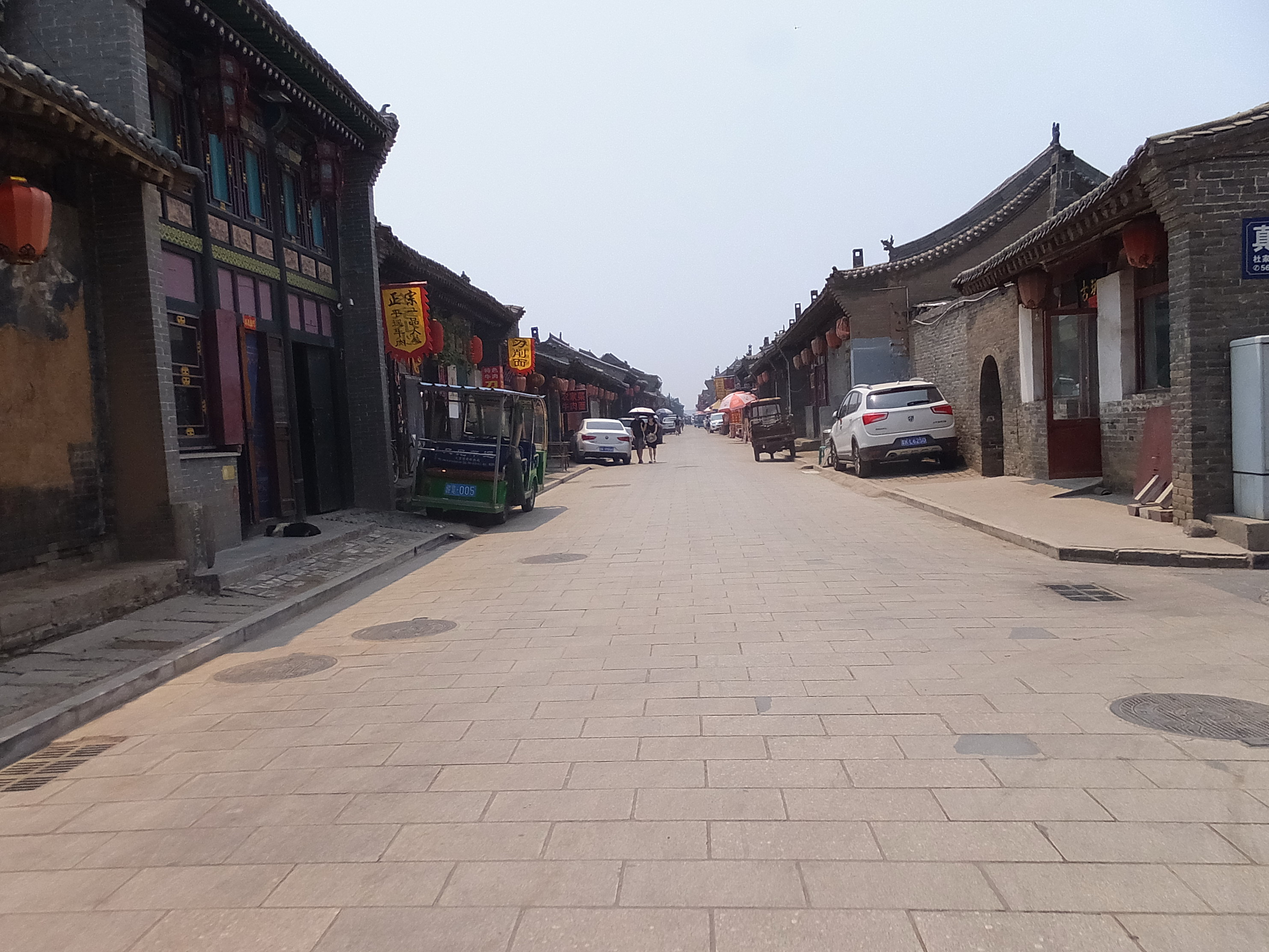 Pingyao Ancient City 平遙古城